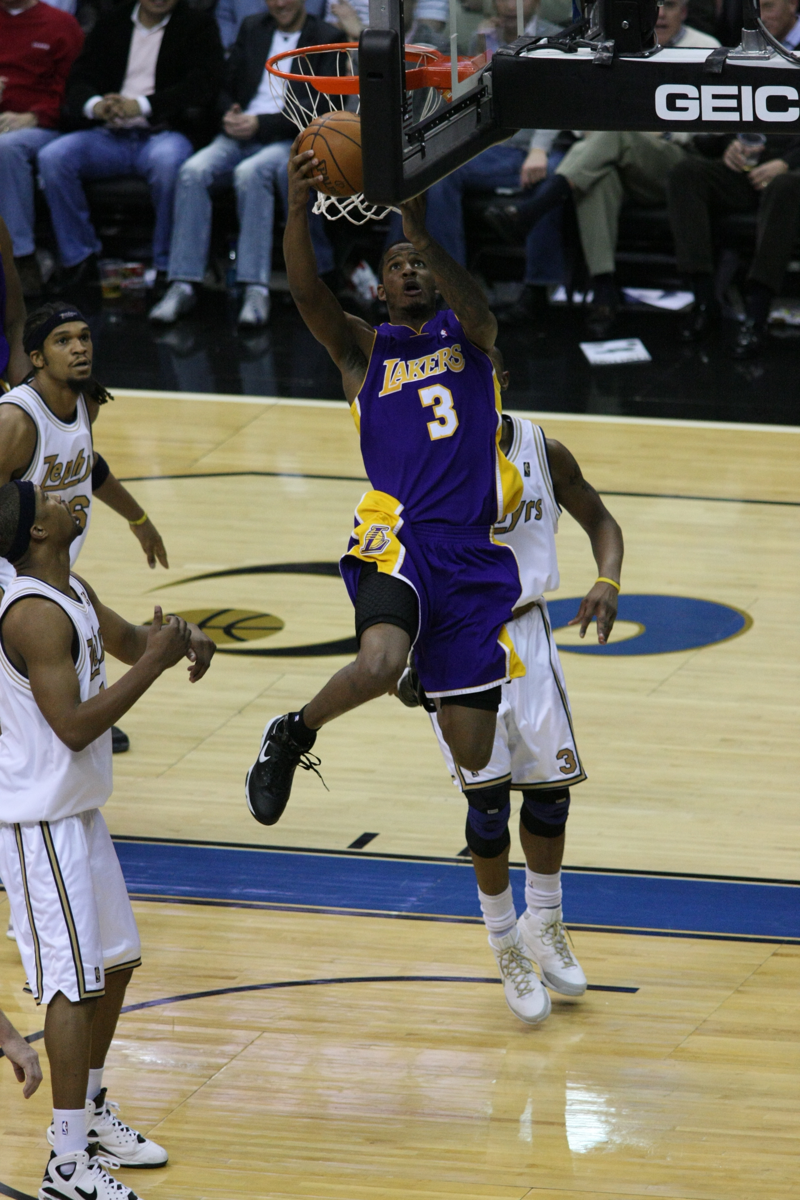 Trevor Ariza playing with the Los Angeles Lakers